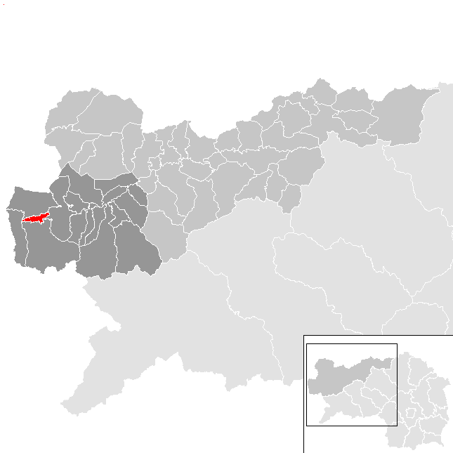 District Liezen, Styria, Austria. Politische Expositur Gröbming is highlighted